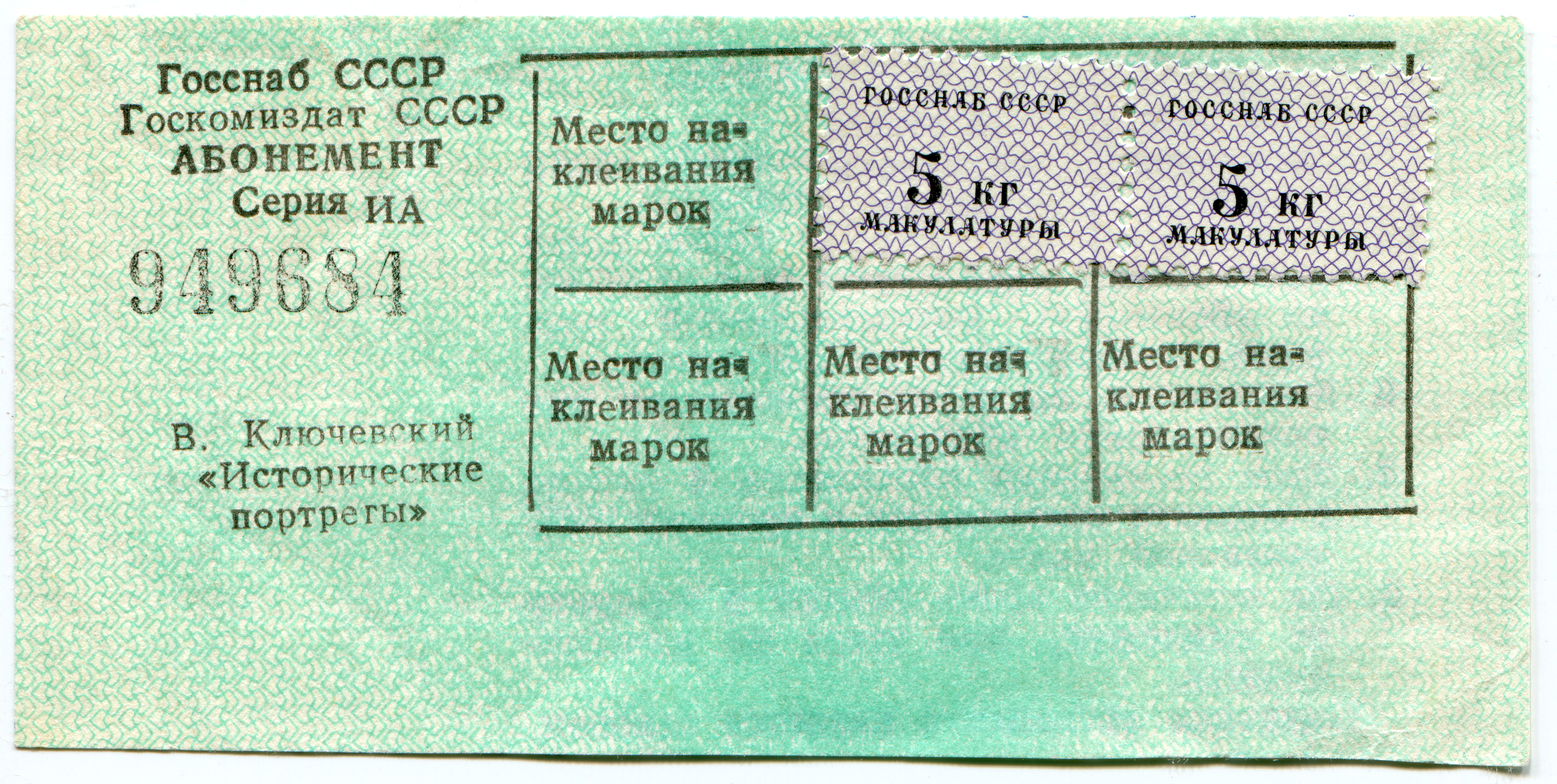 USSR. For books stamps of the Elektrostal.